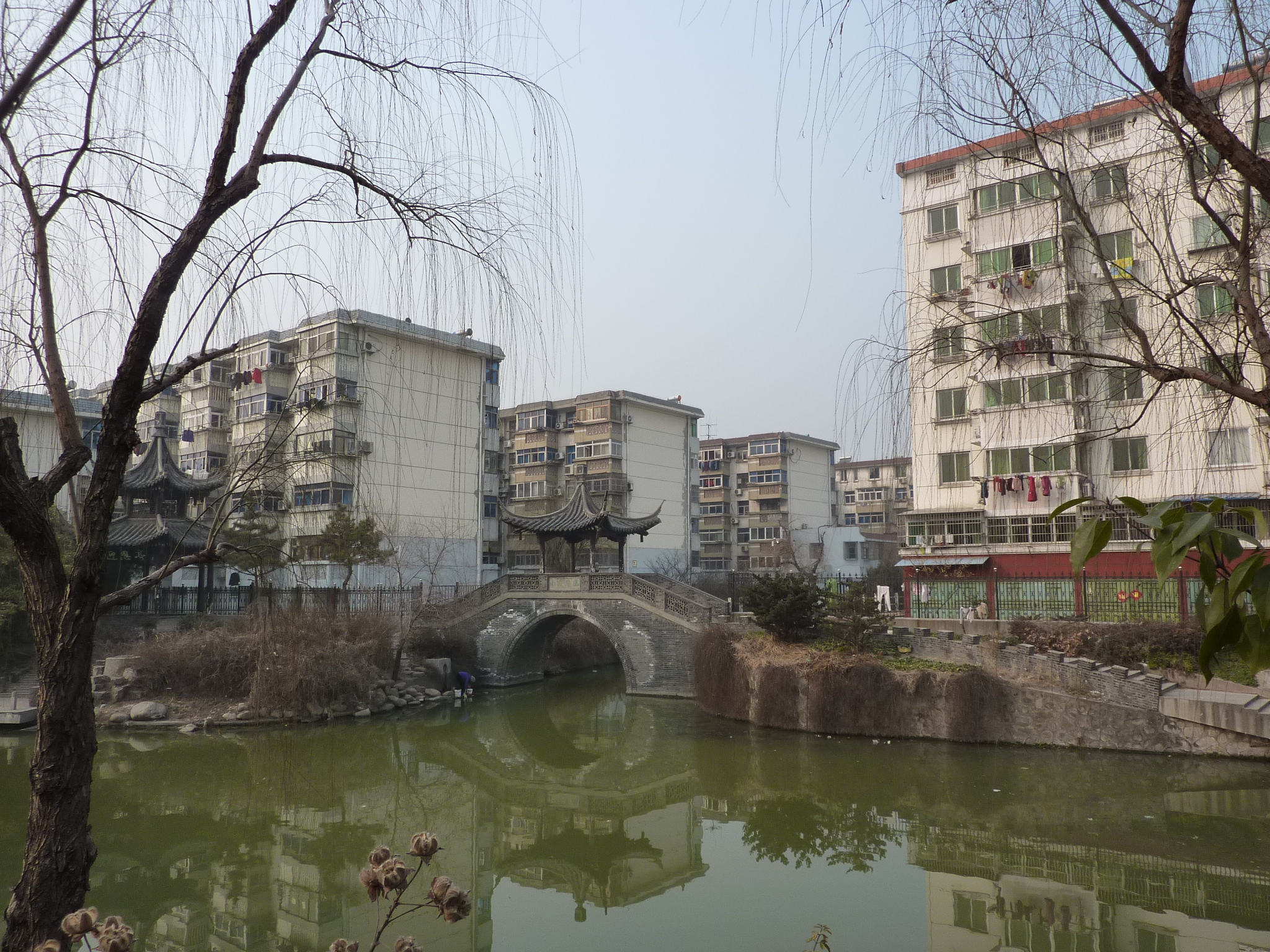 The Caohe Canal in Yangzhou (foreground) and a smaller canal branching from it to the north (center, going toward the background), spanned by a small bridge. The gazebo in the center left is Ying'en Ting ("Receiving Favor Pavilion").